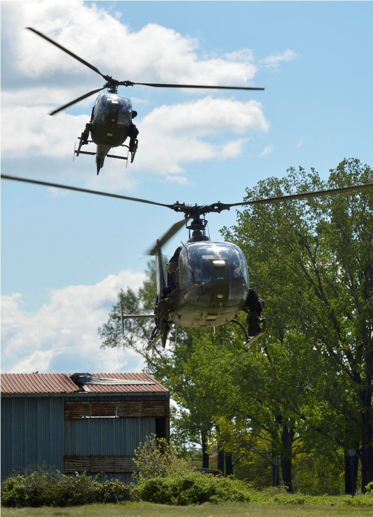 Military Montenegro